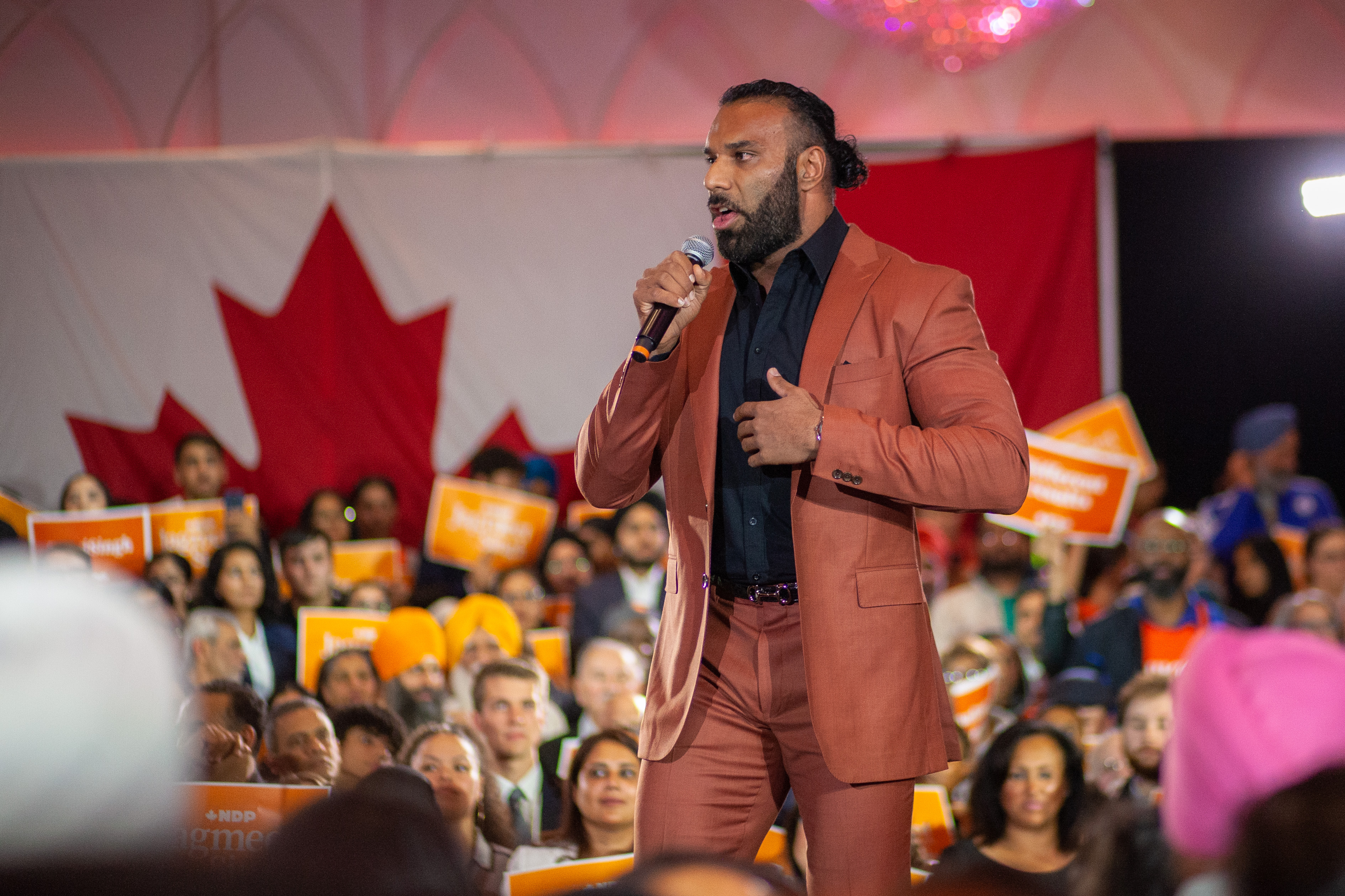 Jinder Mahal speaks at a rally in Brampton to endorse NDP Leader Jagmeet Singh during the 2019 Canadian federal election